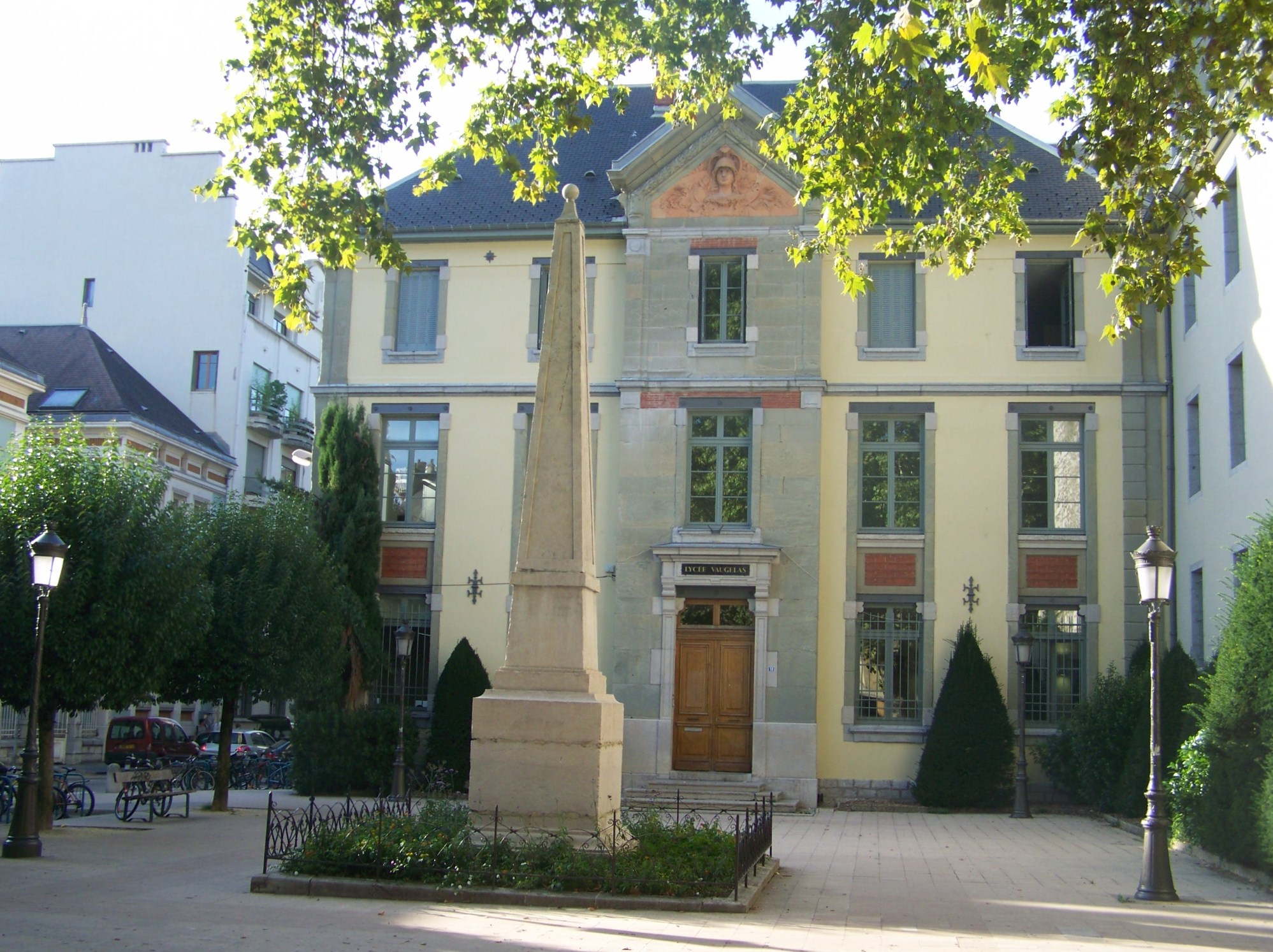 Sight on lycée Vaugelas original entrance, in Chambéry, Savoie (France).